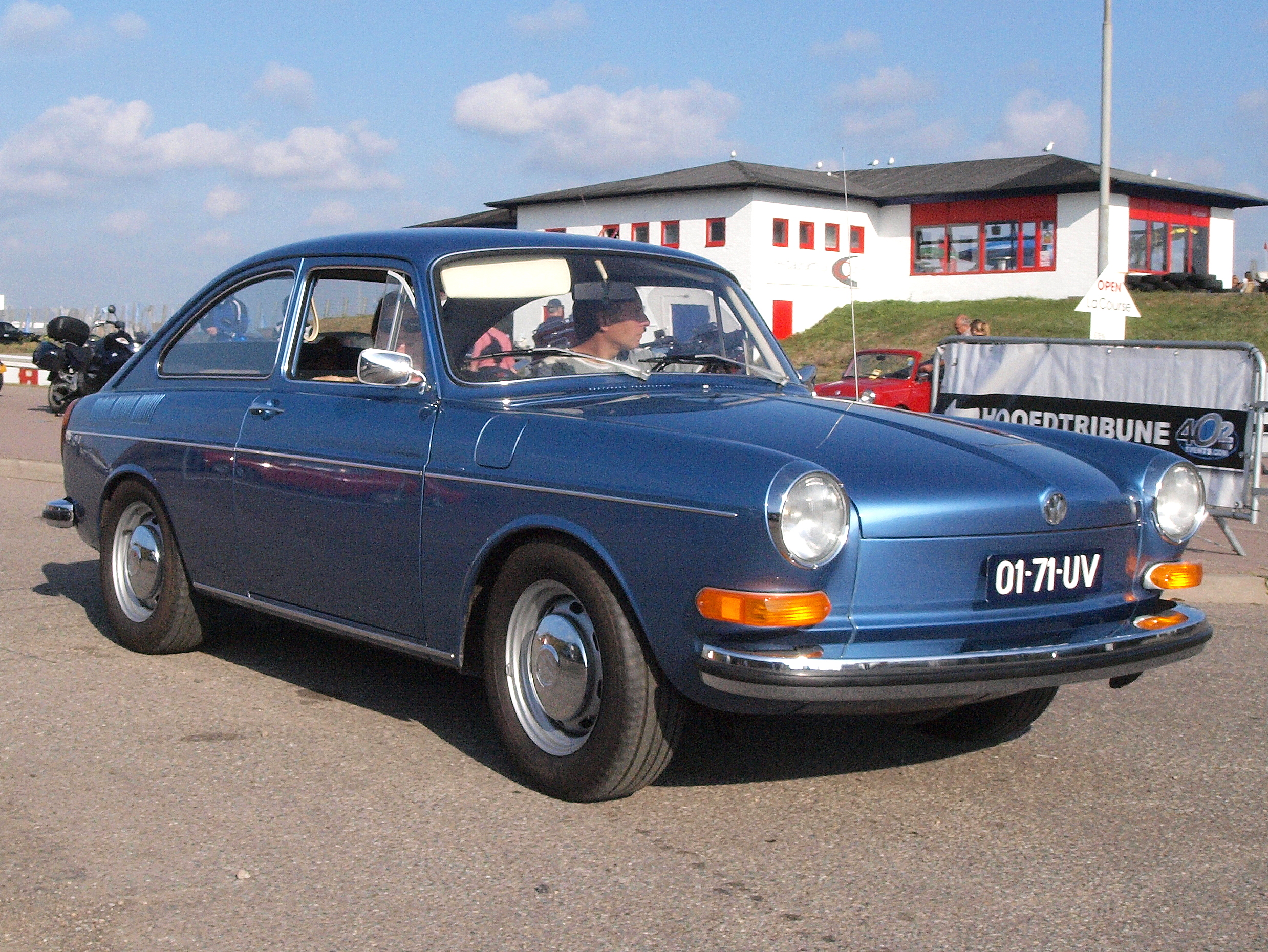 Photographed at the Nationaal Oldtimer Festival Zandvoort 2009, The Netherlands. OLYMPUS DIGITAL CAMERA